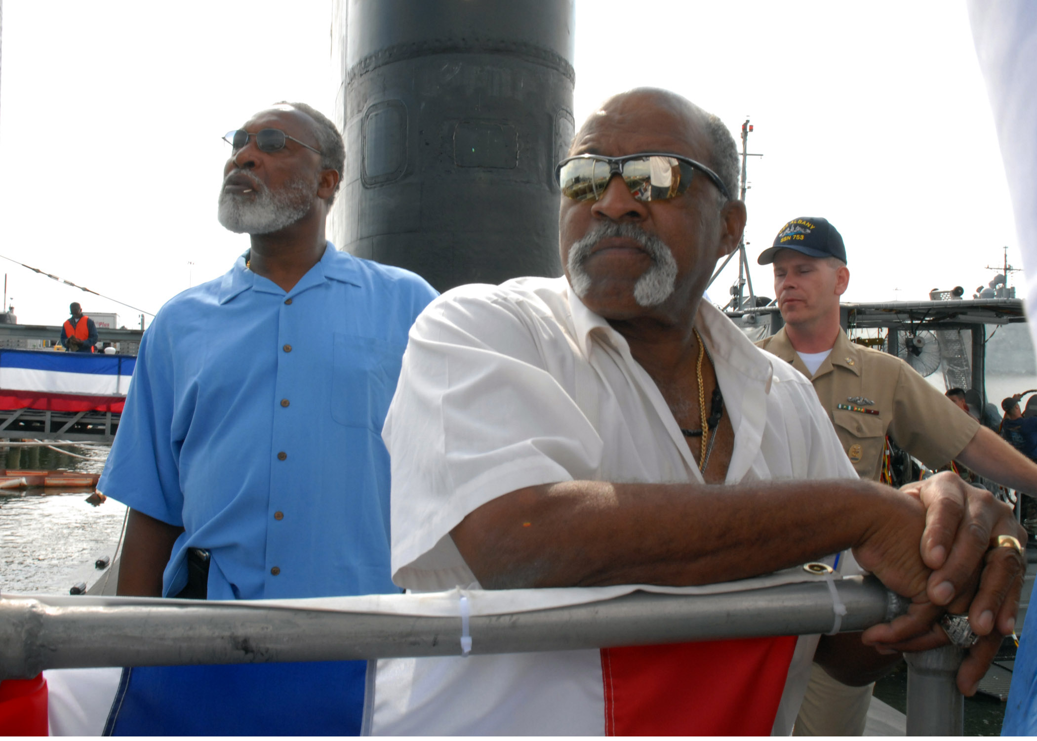 NORFOLK, Va. (June 13, 2007) – L.C. Greenwood, a former Pittsburgh Steeler, and Luis Tiant, a former Boston Red Sox player, stand on the brow of USS Albany (SSN 753) with Chief of the Boat, Michael Nichols, before going below decks to tour Albany. The tour was part of Summerfest 2007, hosted by Naval Station Norfolk's Morale Welfare and Recreation. U.S. Navy photo by